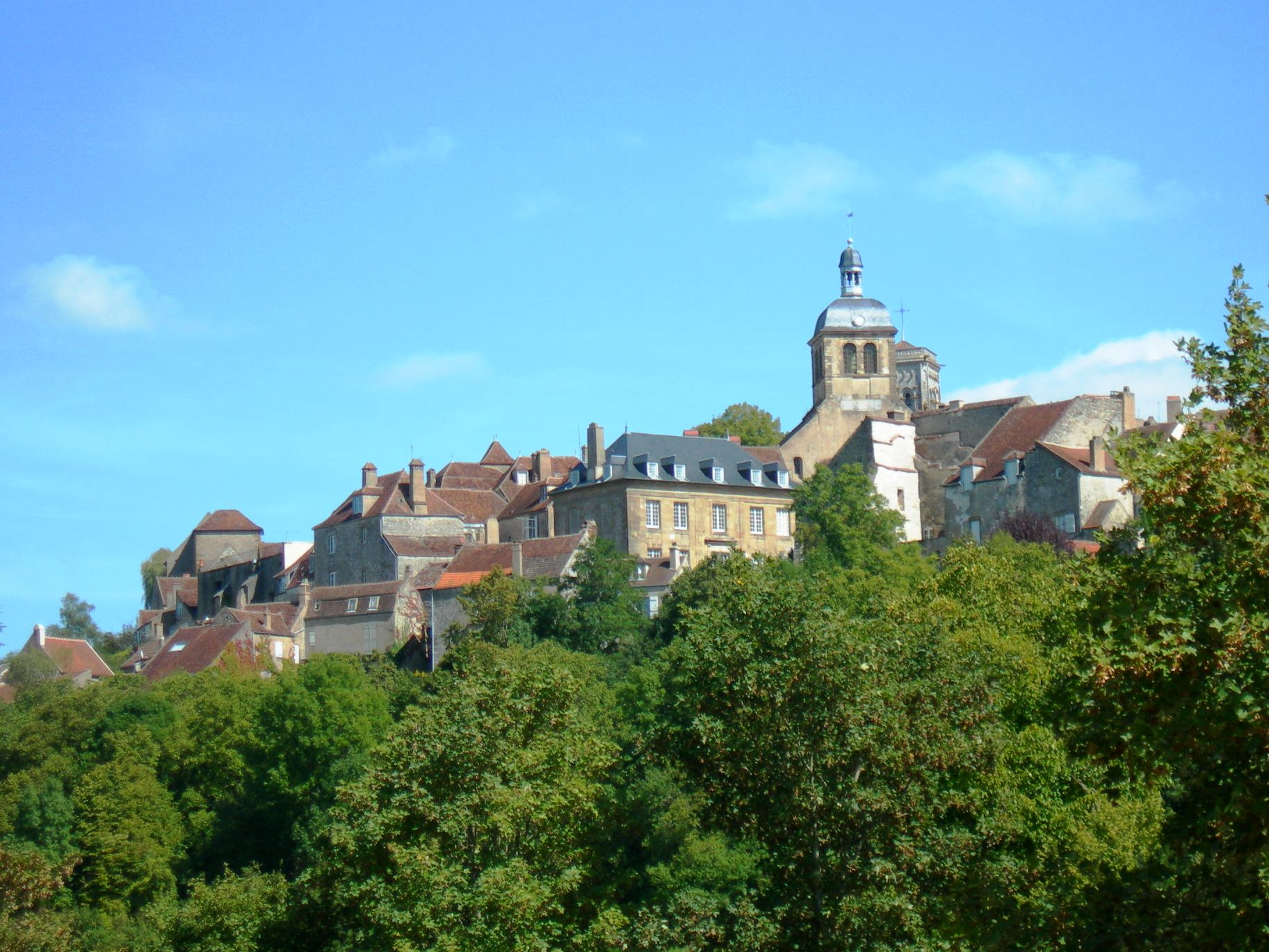 General view from W.)